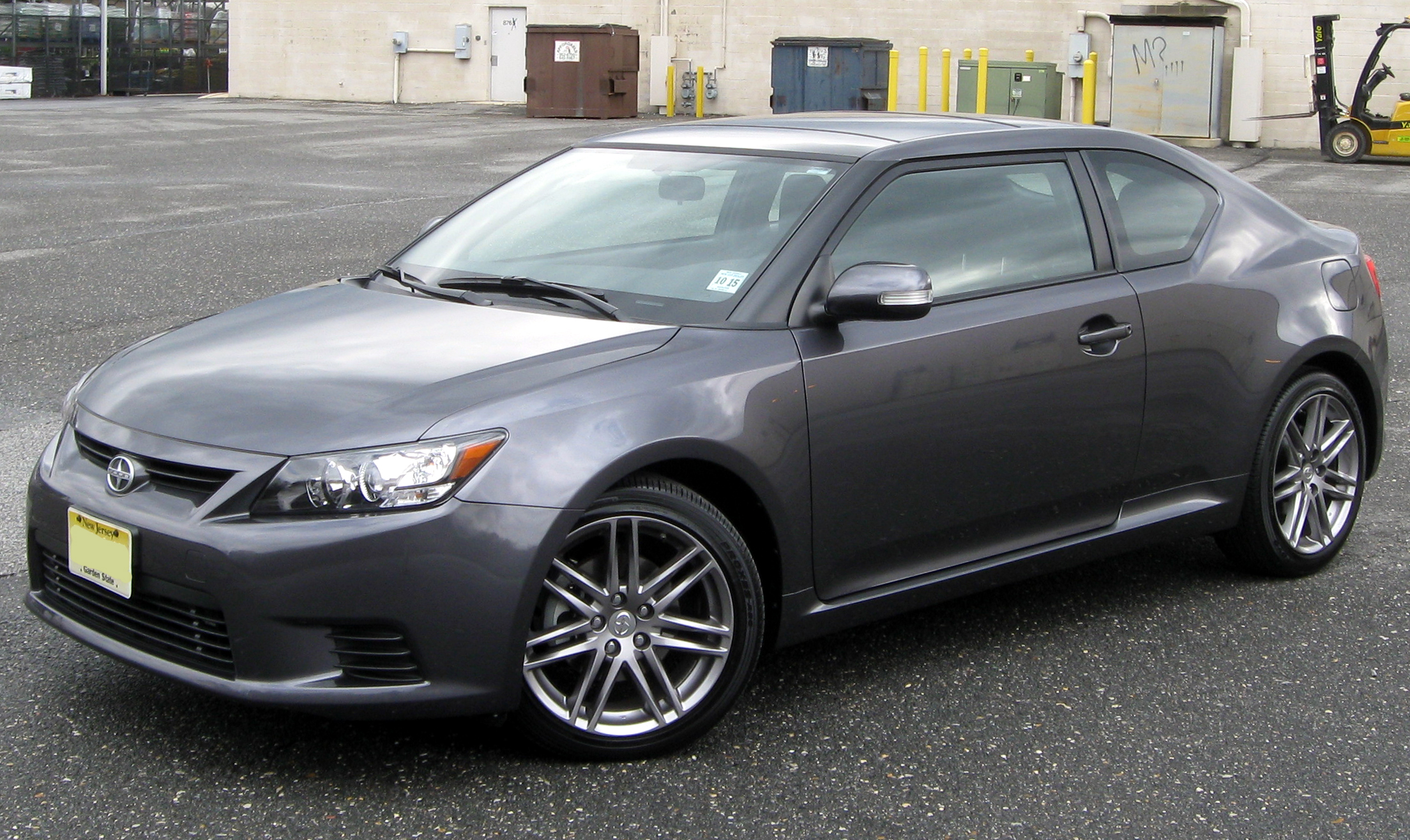 2011 Scion tC photographed in Clinton, Maryland, USA.